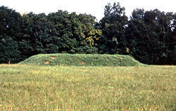 View of the Bear Creek Mound, located at mile 308.8 on the Natchez Trace Parkway east of Tishomingo in Tishomingo County, Mississippi, United States. The site is listed on the National Register of Historic Places.